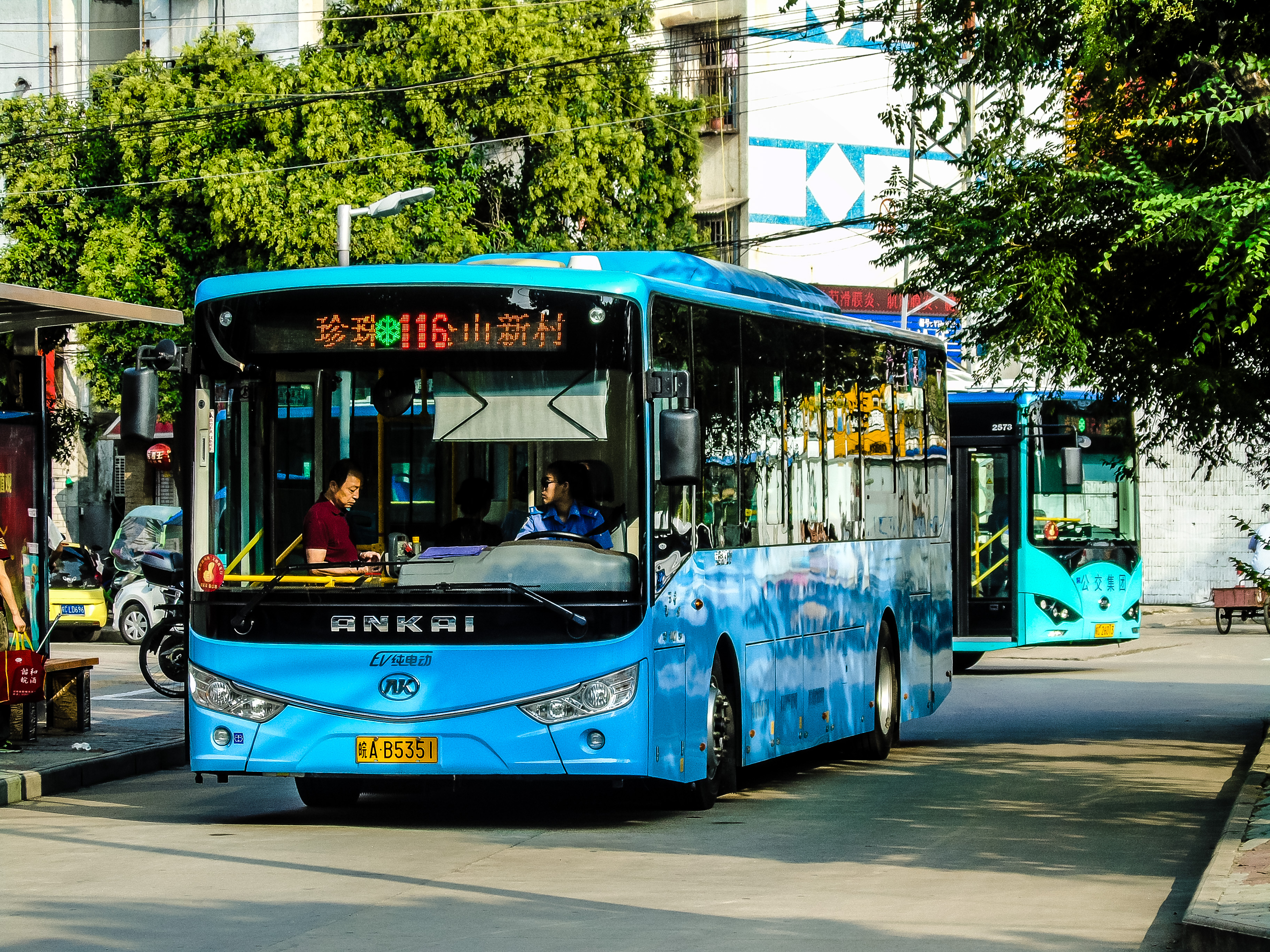 Bengbu Bus No.116 N